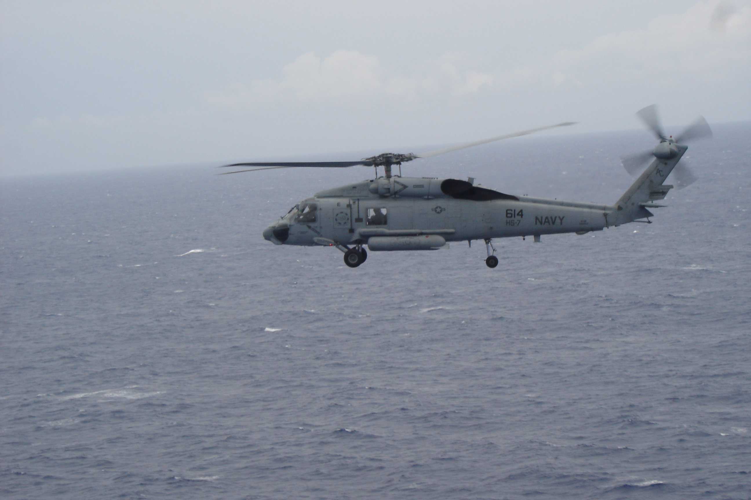 A U.S. Navy SH-60F helicopter of the HS-7 squadron (also know as the 'Dusty Dogs') flying over the Atlantic Ocean.